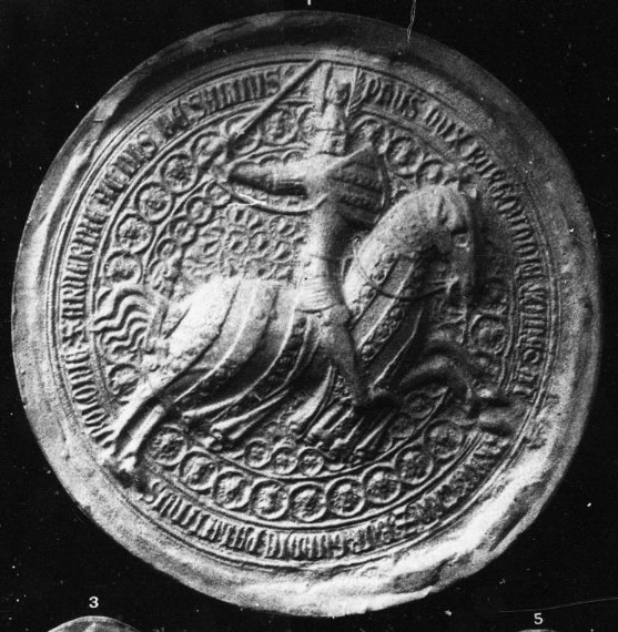 Philip I of Burgundy